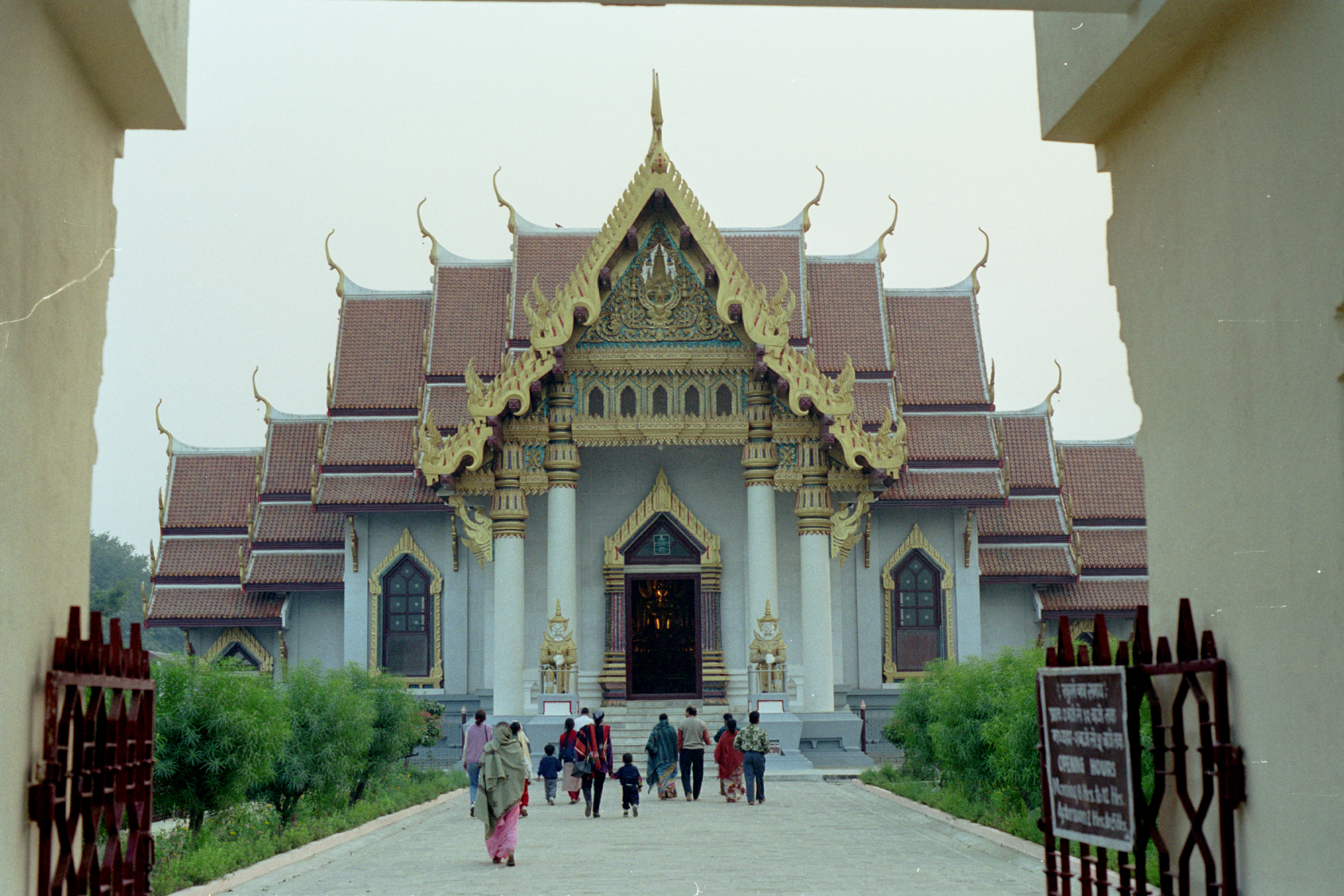 Tai temple, Bodh Gaya, Bihar, India